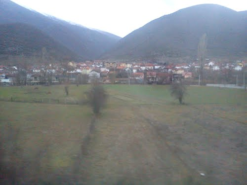 village of Radusha, Macedonia